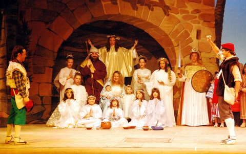 Photo of traditional theather representation "Els Pastorets" in Igualada, Catalonia